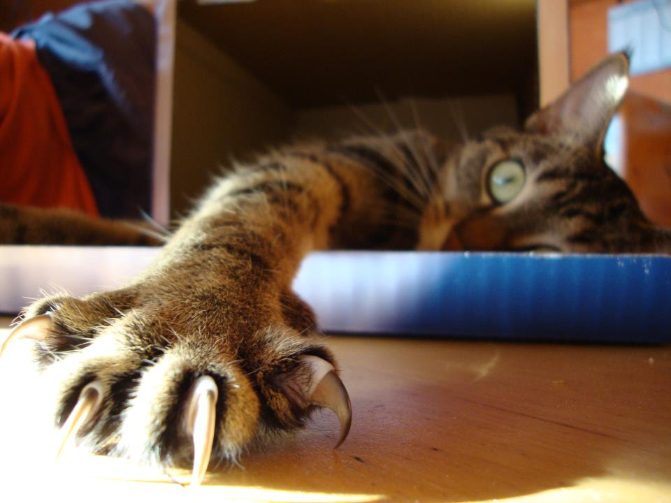 500px provided description: A random shot I took with my old and cheap digital camera. Turned out to be a big shot. Probably the best one I've ever done. [#cat ,#animals ,#animal ,#cute ,#cats ,#pet ,#kitten ,#pets ,#kitty ,#box ,#meow ,#rawr ,#cat box ,#cat in box ,#catclaw]